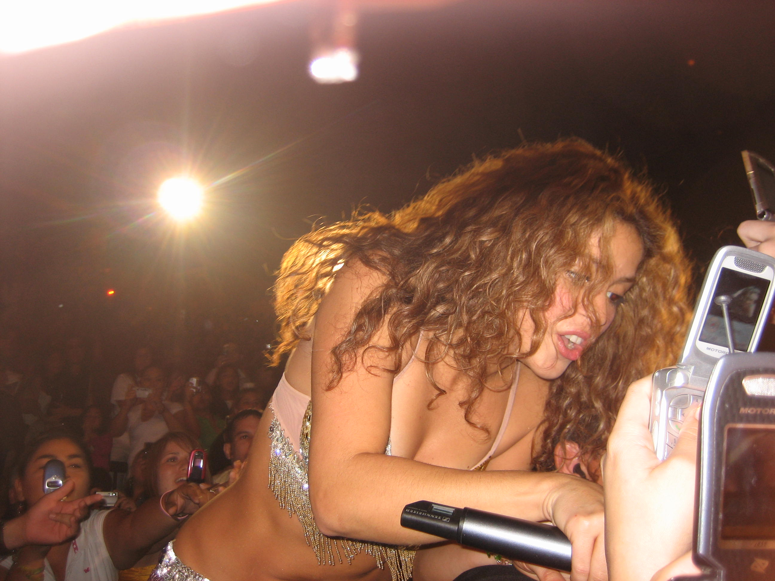 Shakira at the Dodge Arena.